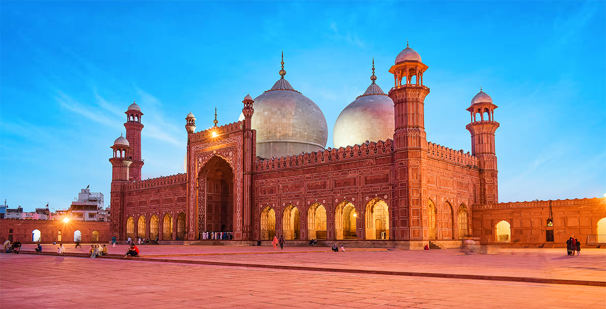 Shahi Masjid This is a photo of a monument in Pakistan identified as the PB-20